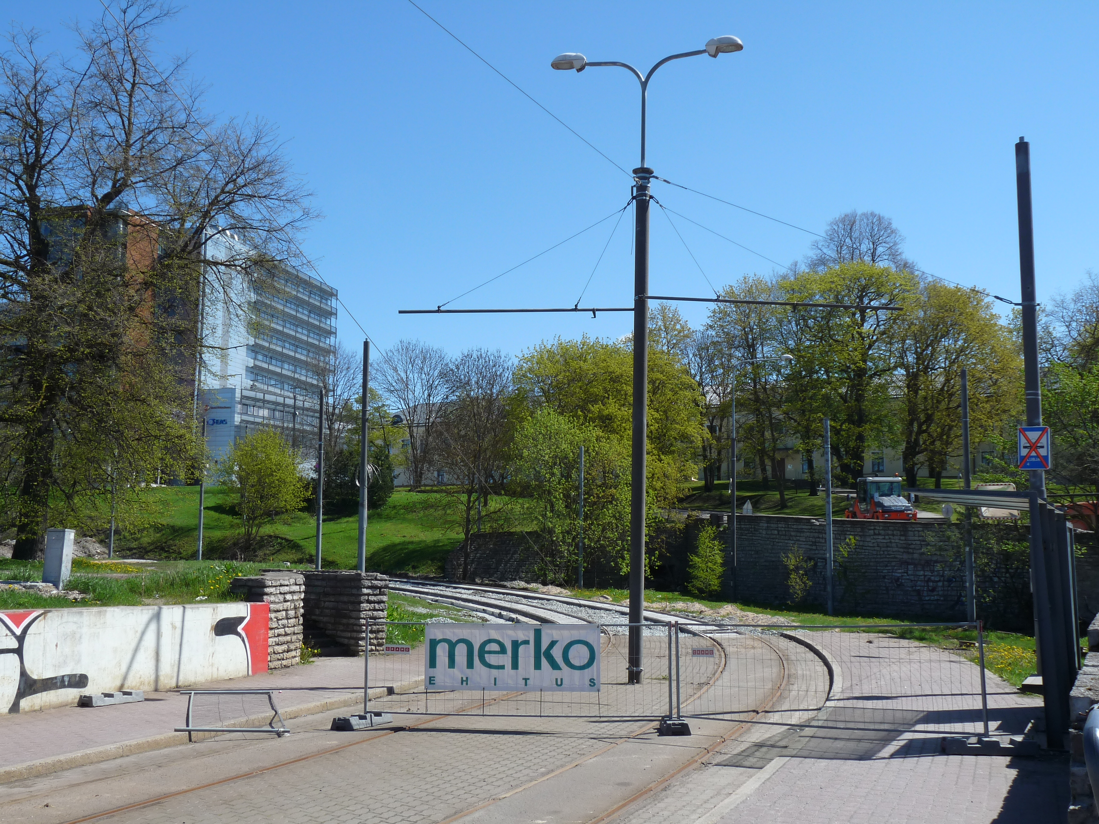 Tram track replacement in Tallinn, Estonia